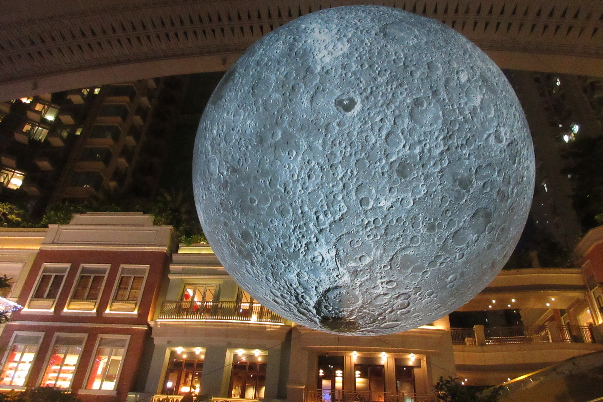 HK 灣仔 Wan Chai 利東街 Lee Tung 囍滙 The Avenue night 月球博物館 big Moon Museum by UK Luke Jerram in October 2017